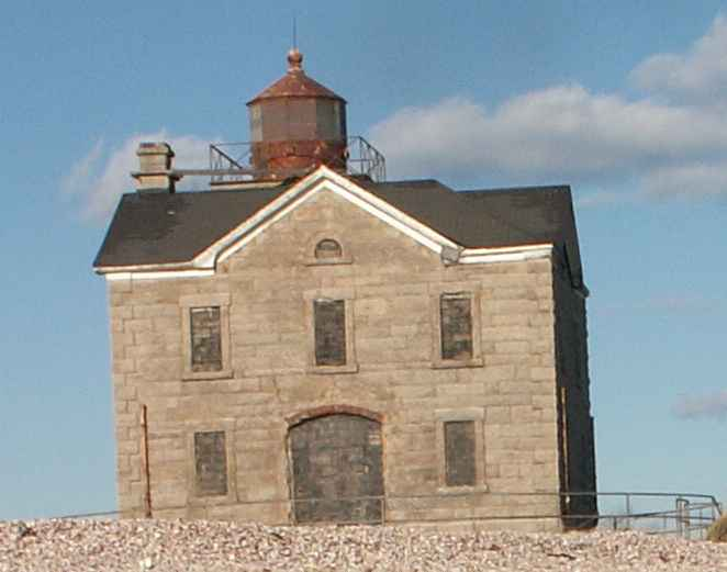 Cedar Point County Park lighthouse in East Hampton I took in April 2006.